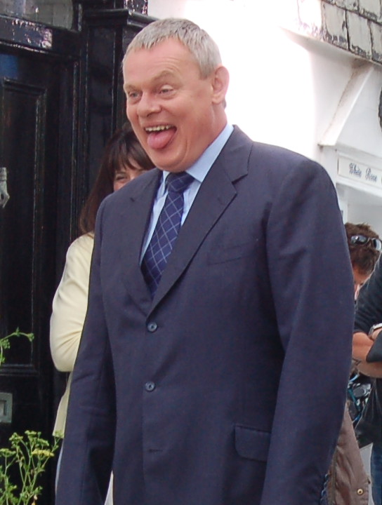 Martin Clunes filming Doc Martin in 2007 taken by Richard Hall. Cropped from :Image:Doc_martin_in_2007.jpg